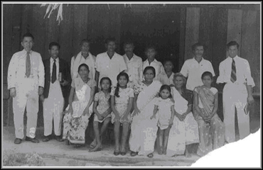 Pr. T.C. Chin, president of the Malayan Mission and Pr. R.J. Moses (coat) with early Adventist believers in Kulim, Perak, 1947